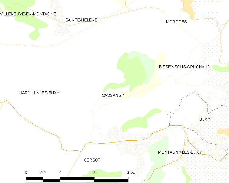 Map of French municipality